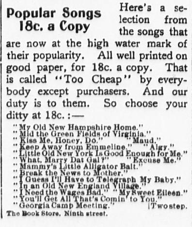 Advertisement in the New York Sun, March 3, 1899, listing popular songs for sale as sheet music